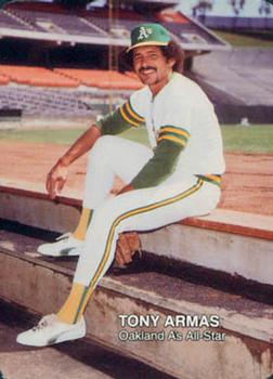 A baseball card of Tony Armas from the 1987 Mother's Cookies Oakland Athletics set. Card #21 of 28